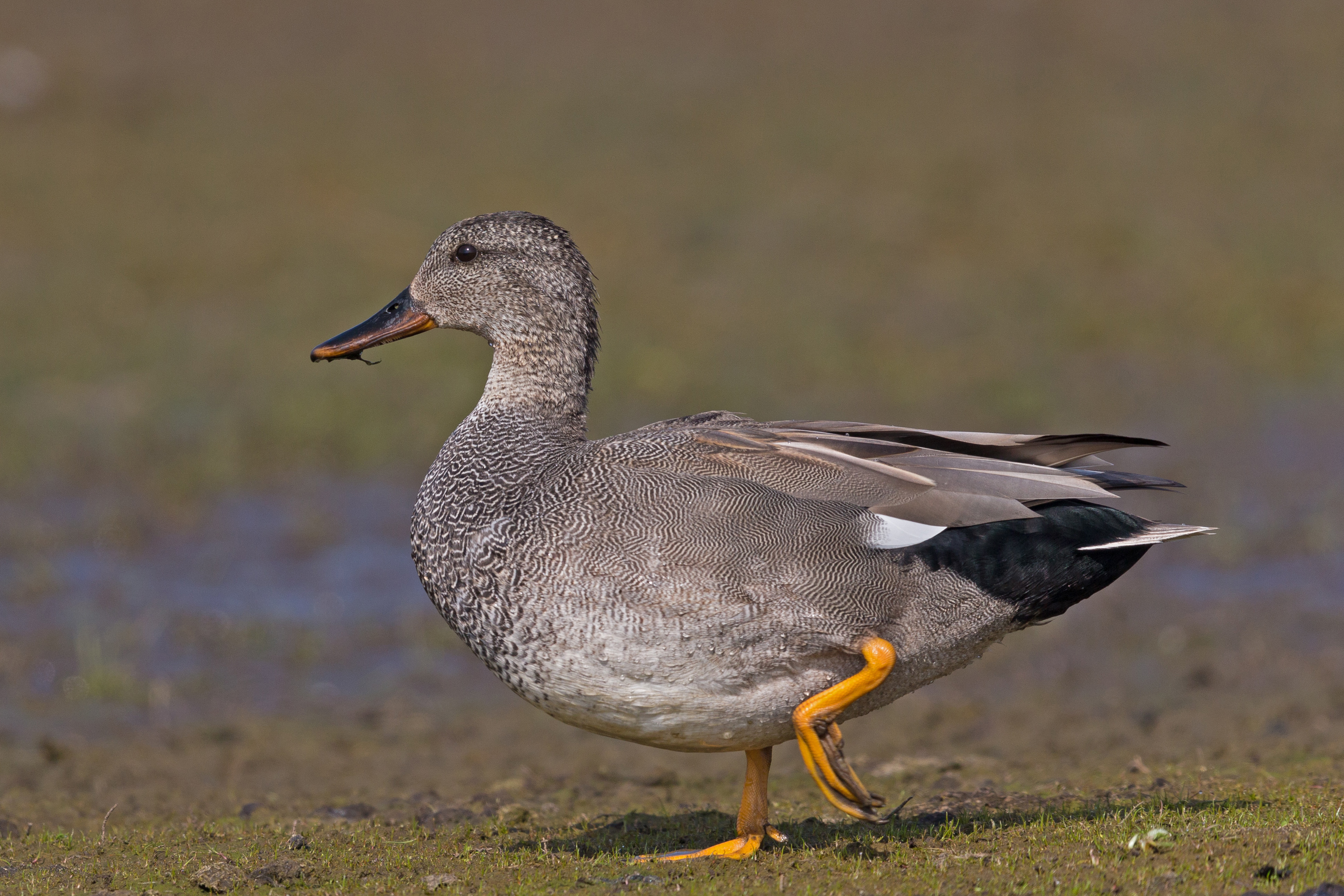 Gadwall